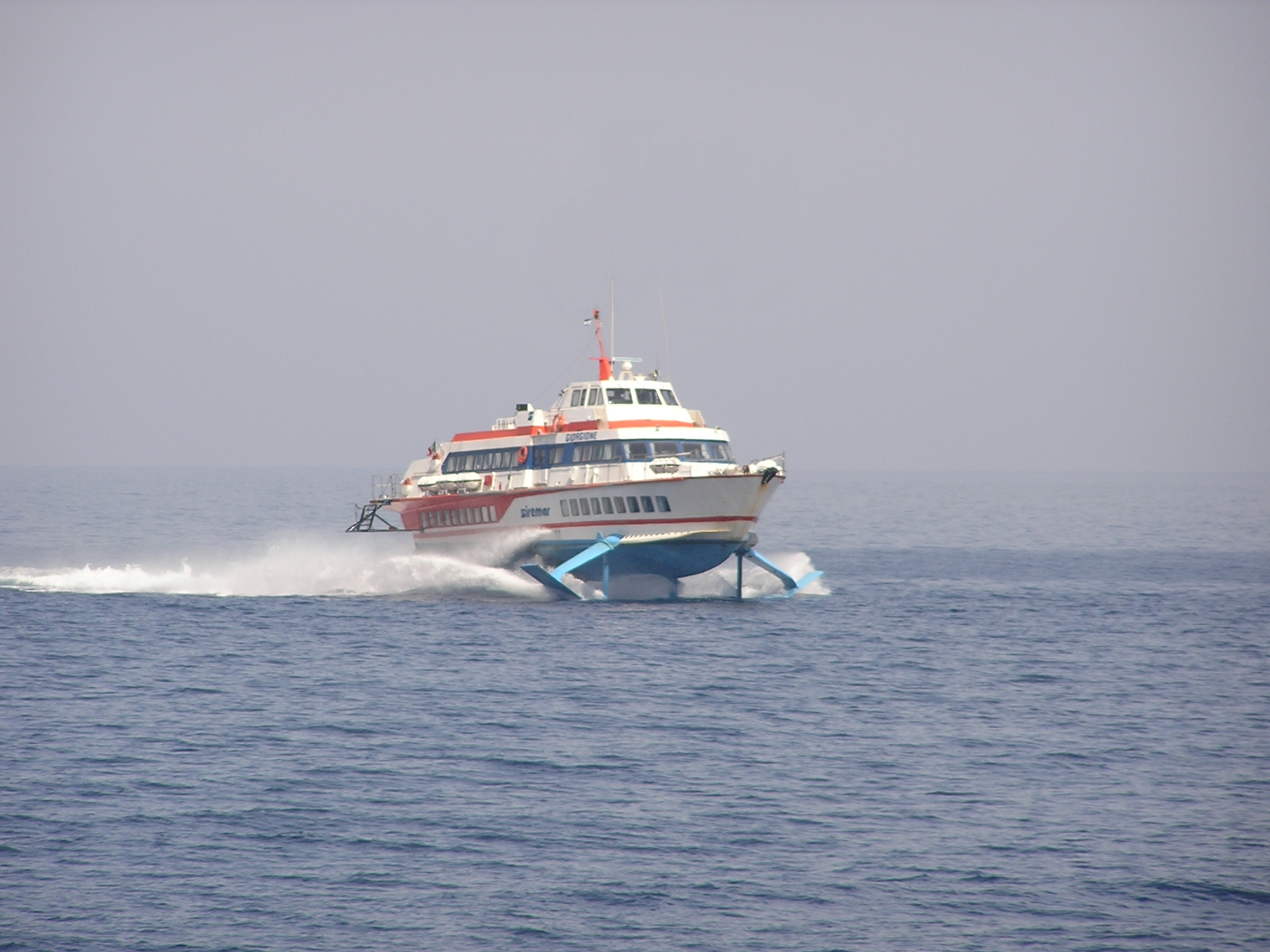 L’aliscafo “Giorgione” della Siremar Hydrofoil Delivered in:1989 Company:Siremar Country:Italy Yard:Rodriquez Cantieri Navali Type:RHS 160 F Seats:210 Yard building number:239 IMO:8712611